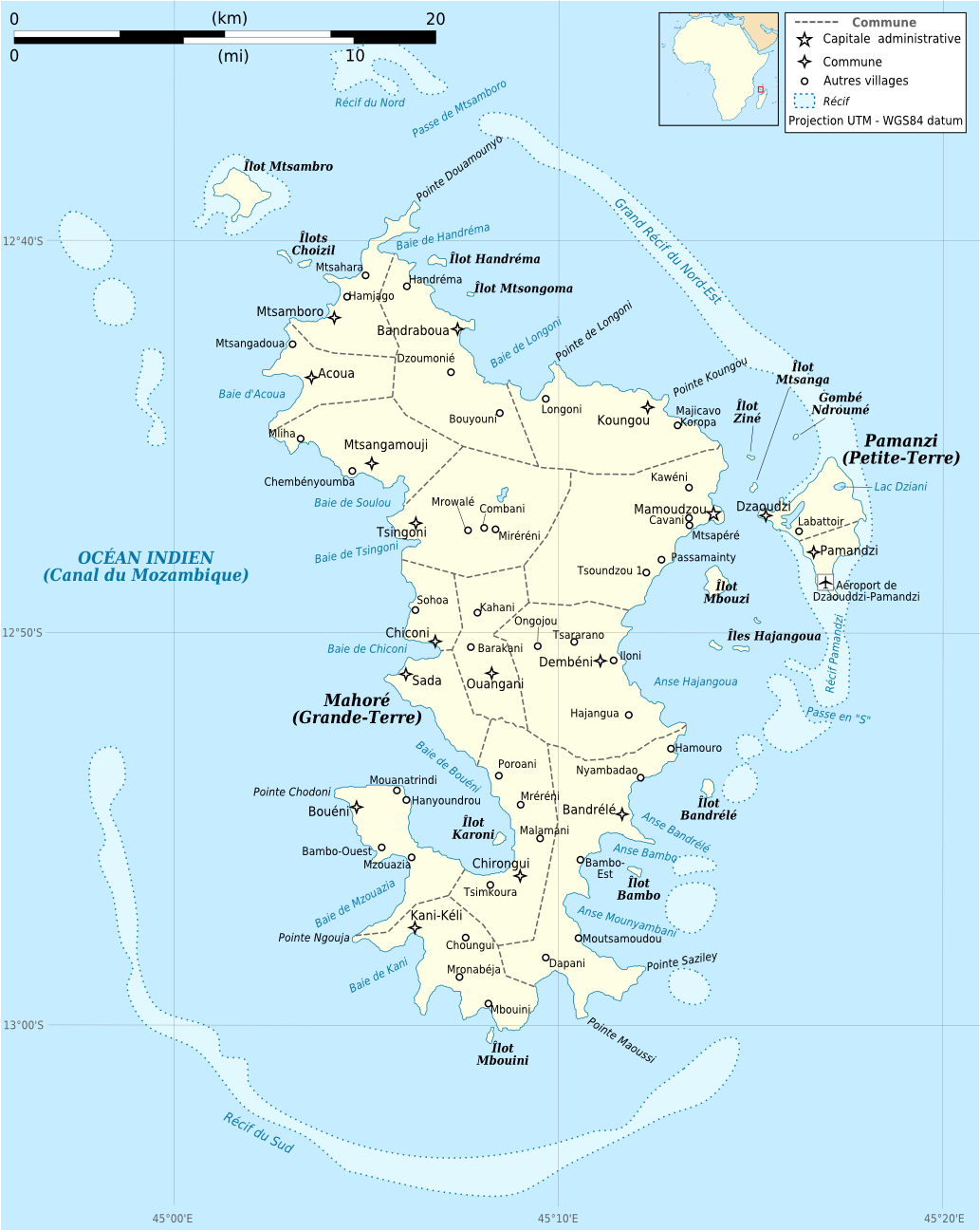 Administrative of Mayotte in French. Use the SVG version for translations and alterations, then update this one.